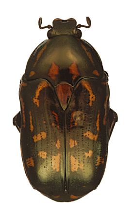 Type of the cetonid Poecilopharis allardi Rigout